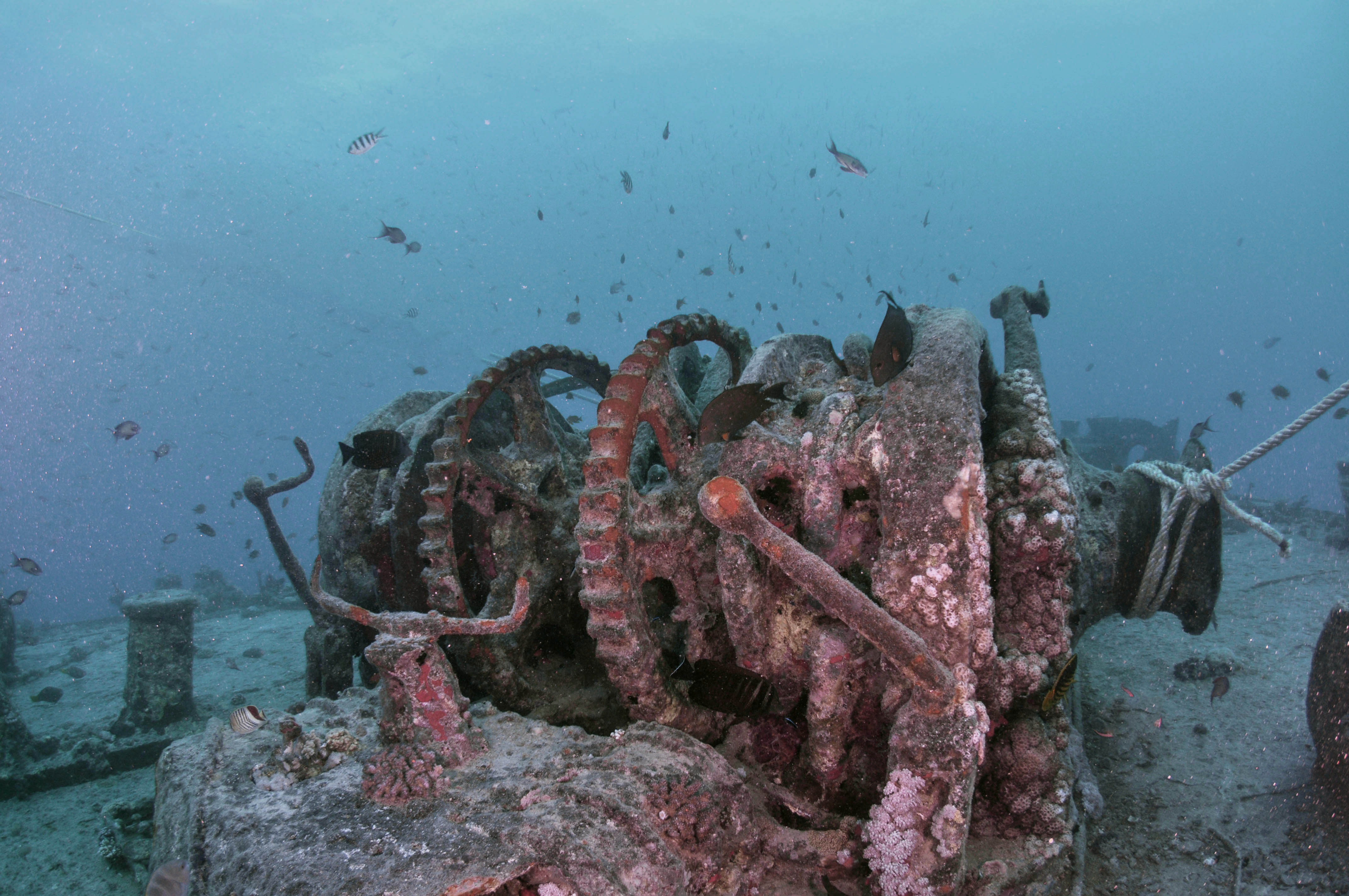 Winch thistlegorm